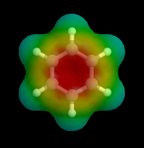 Benzene showing the coloured electrostatic potential surfaces around the molecule.